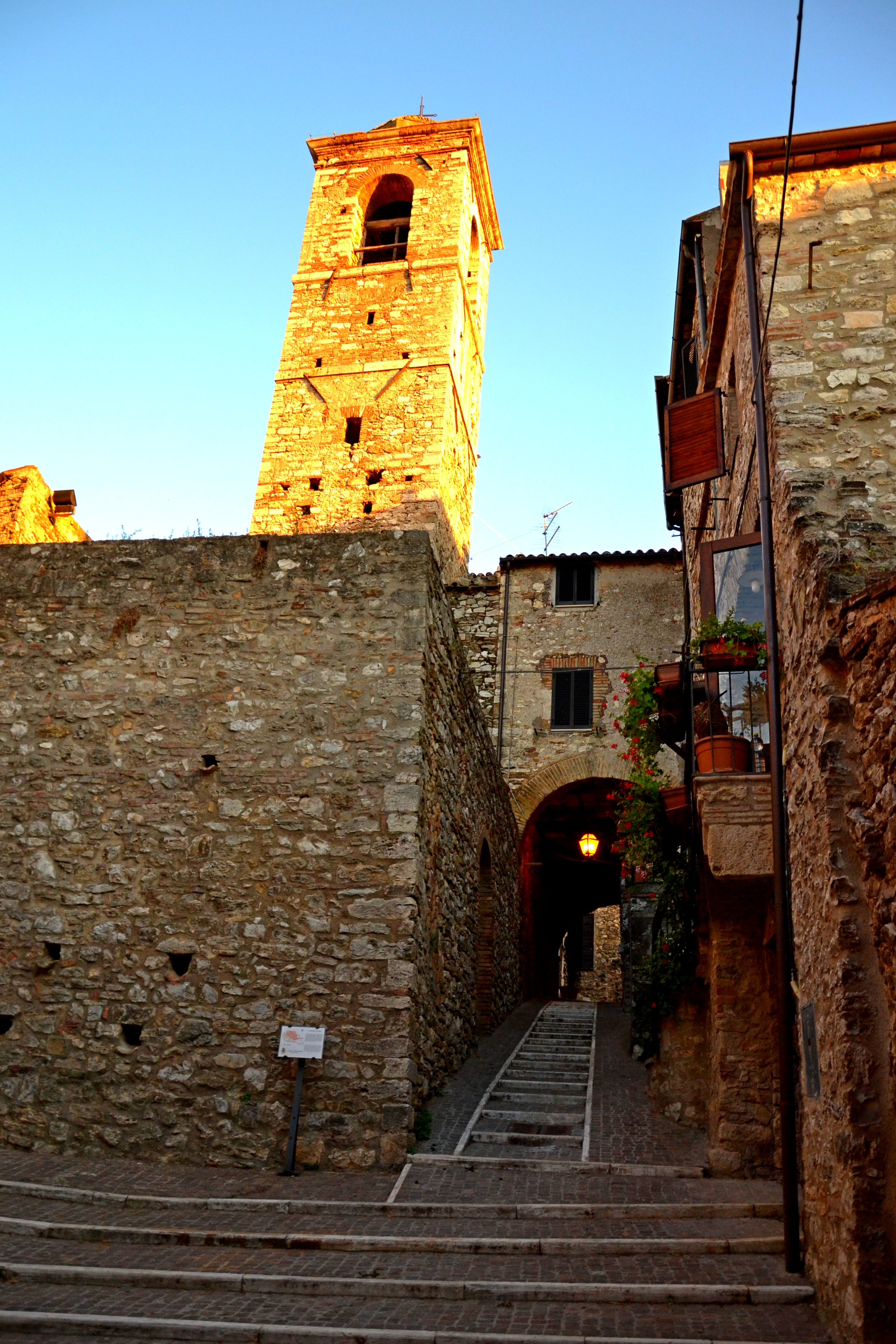 Montecchio, Umbrien, Italien